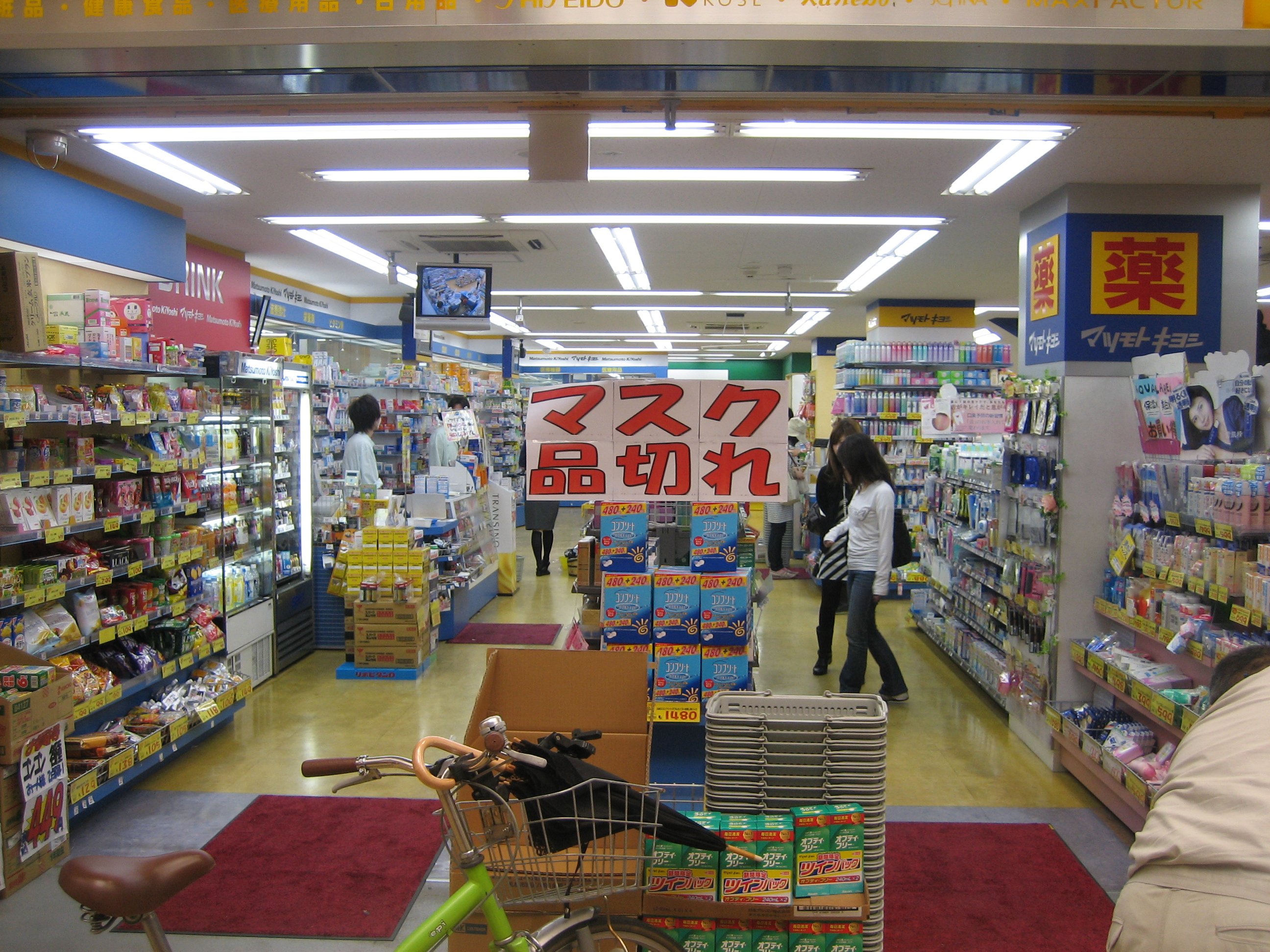 In a drug store in Japan, a notice (center, written in red) says masks are sold out; mid-May, 2009, just after Japan confirmed domestic infection cases of new A(H1N1) flu.